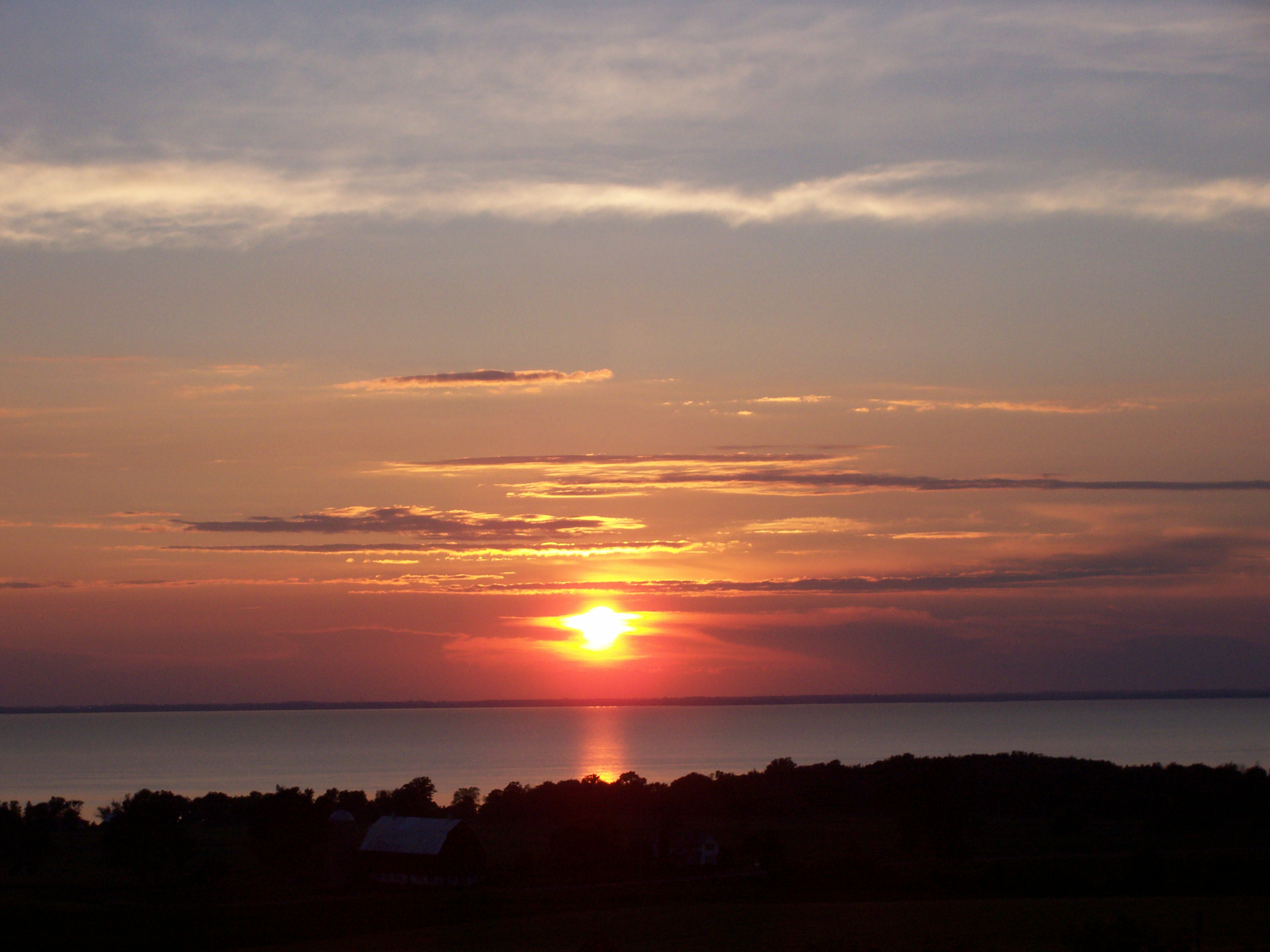 Sunset looking west over Lake Winnebago at Oshkosh, Wisconsin, taken near the top of the Niagara Escarpment by myself on June 26, 2006. Lake Winnebago is approximately 12 miles wide at this point, and the location is approximately 1 mile east the lake. The location is a State of Wisconsin run wayside where U.S. Route 151 turns due east as it climbs the Escarpment. The Image:Brothertown Sign.jpg was taken facing the opposite direction at the same spot.